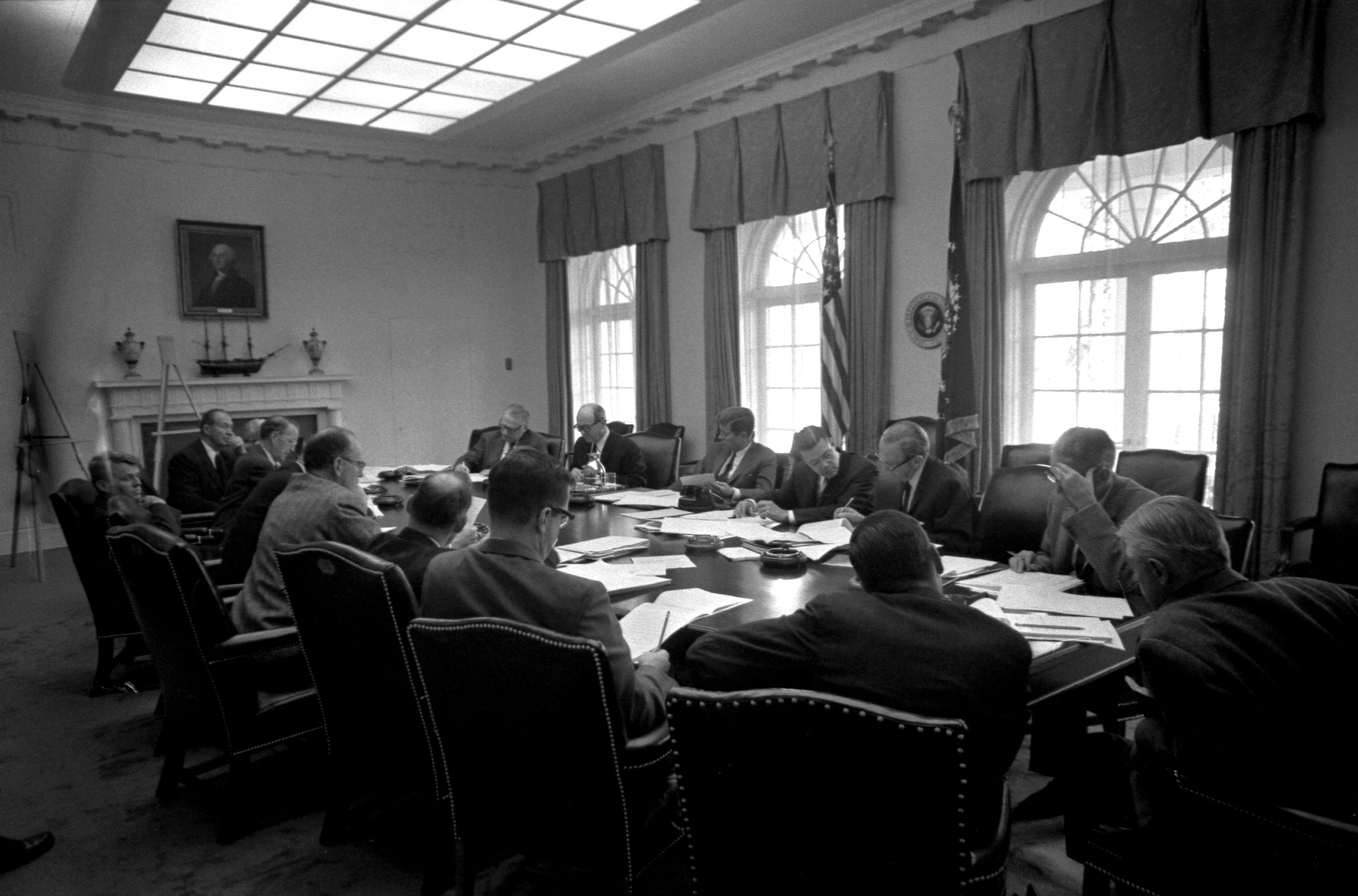 ST-A26-25-62 29 October 1962 Executive Committee of the National Security Council meeting, White House, Cabinet Room. Clockwise from President Kennedy: President Kennedy Secretary of Defense Robert S. McNamara Deputy Secretary of Defense Roswell Gilpatric Chairman of the Joint Chiefs of Staff Gen. Maxwell Taylor Assistant Secretary of Defense Paul Nitze Deputy USIA Director Donald Wilson Special Counsel Theodore Sorensen Special Assistant McGeorge Bundy Secretary of the Treasury Douglas Dillon Attorney General Robert F. Kennedy Vice President Lyndon B. Johnson (hidden) Ambassador Llewellyn Thompson Arms Control and Disarmament Agency Director William C. Foster CIA Director John McCone (hidden) Under Secretary of State George Ball Secretary of State Dean Rusk